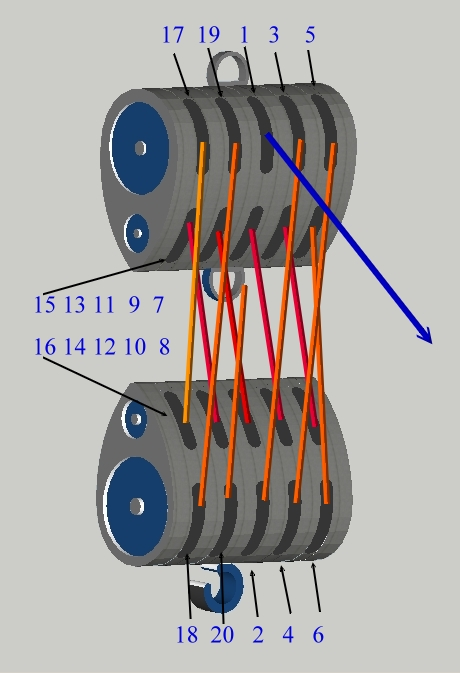 Pulley, Smeaton's-Block with 20 wheels